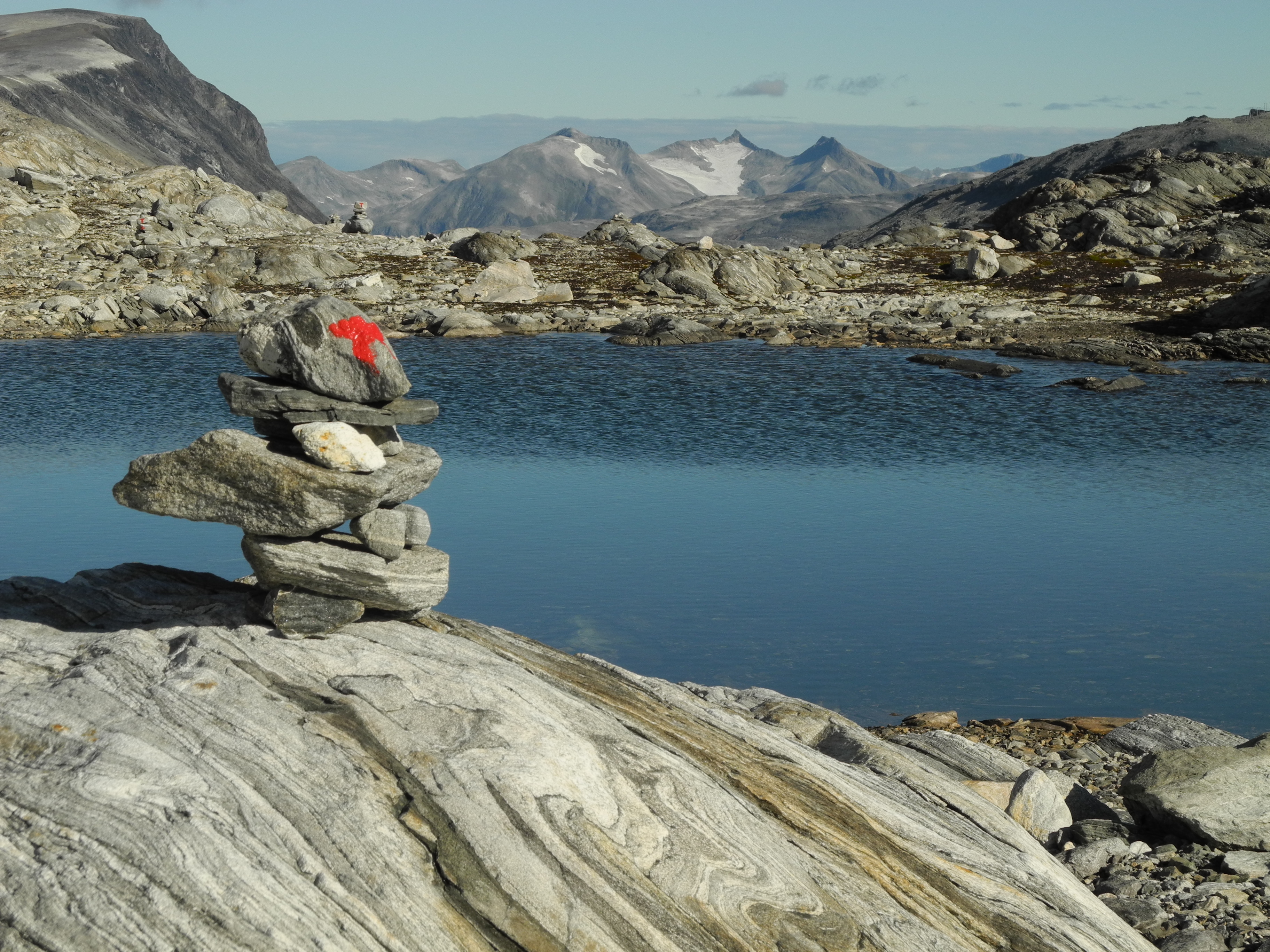 Mountain landscape, Tafjord Mountains, Norway. View towards Trollkyrkja summit (between Muldal and Valldal)